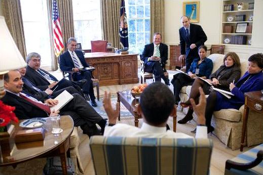 President Obama meeting with senior White House staff. Individuals present (l-r): David Axelrod (Senior Advisor to the President), Jim Messina (Deputy White House Chief of Staff) , Peter Rouse (Chief of Staff), Rahm Emmanuel (Former Chief of Staff), Robert Gibbs (Press Secretary), Phil Schiliro (Assistant to the President for Legislative Affairs), Mona Sutphen (Deputy Chief of Staff), Alyssa Mastromonaco (Director of Scheduling and Advance), and Valerie Jarrett (Senior Advisor to the President and Assistant to the President for Intergovernmental Affairs and Public Liaison)